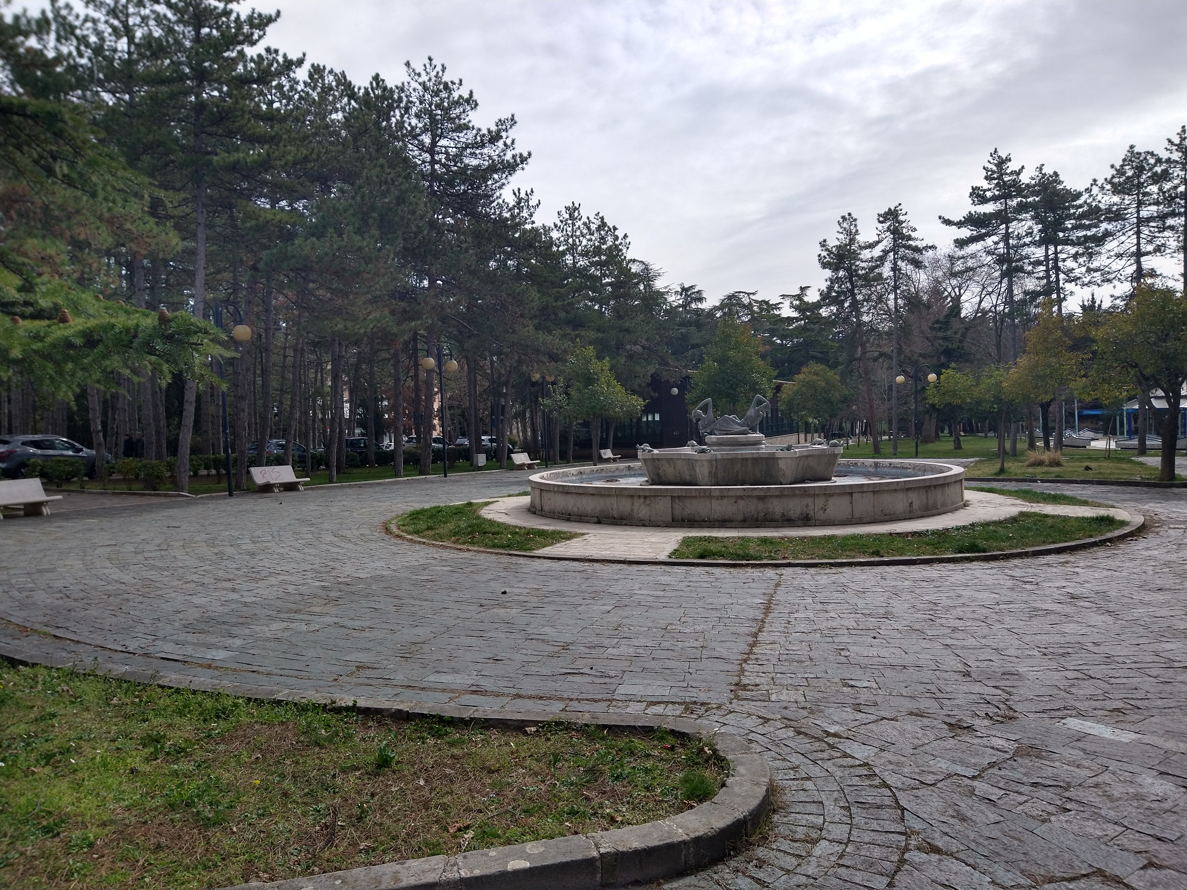 View of Montereale Park in Potenza